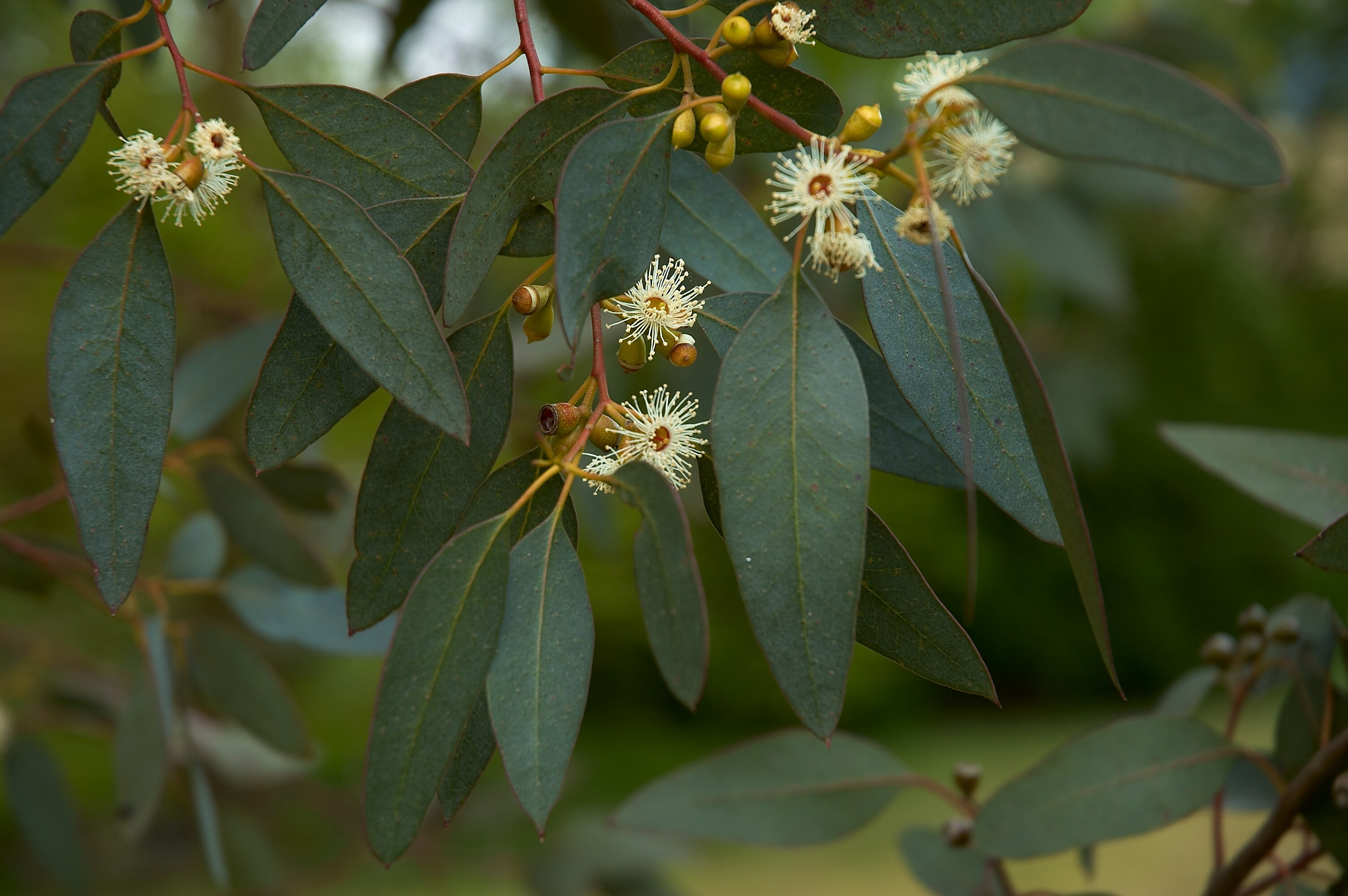 Flowers of eucalyptus gunnii (photo taken in Belgium)